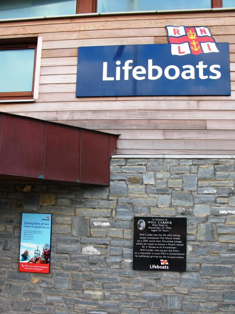 The memorial to lifeboatman Will Carder at Exmouth Lifeboat Station who died on 25 December 1956. It reads Will Carder lost his life after being swept overboard The Maria Noble by a 20ft wave near Orcombe Ledge, whilst en route to rescue a Dutch vessel M V Minerva of Amsterdam. Will Carder who joined the RNLI in June 1953 is remembered for selflessly giving his life to save others.